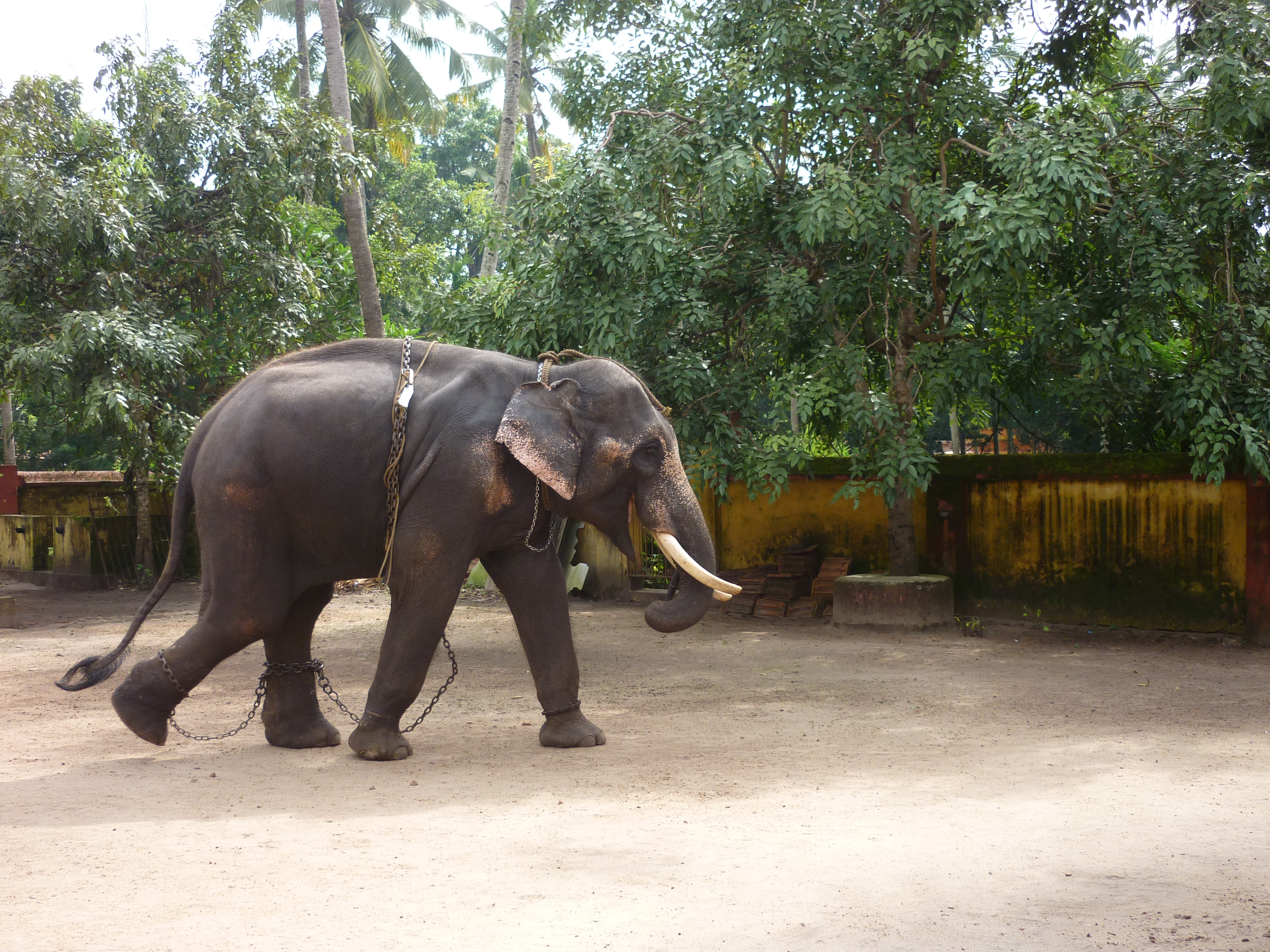 evoor temple